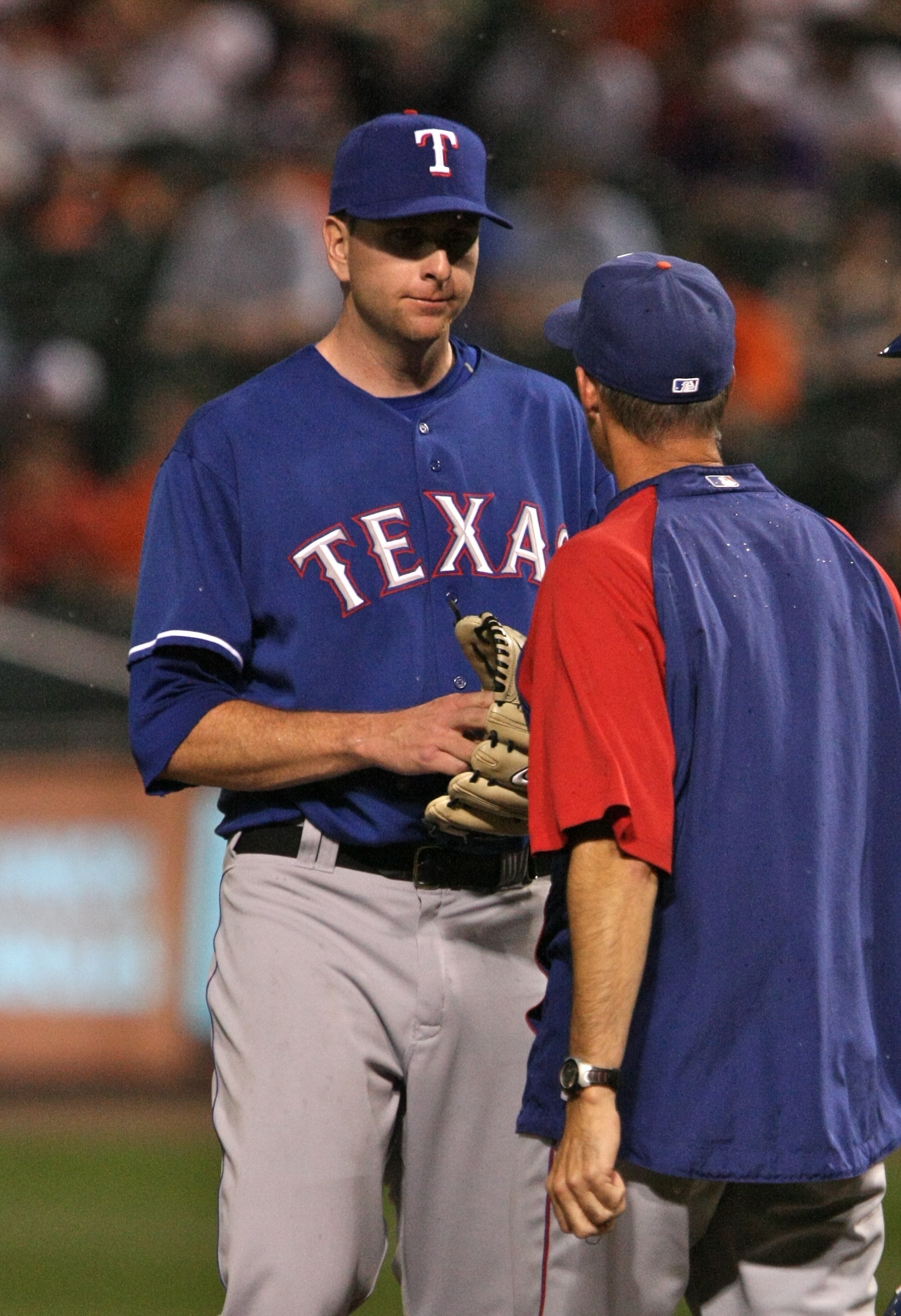 Scott Feldman in a conference on the mound; April 25, 2009